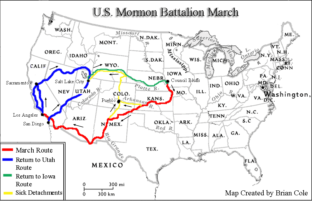 Map of the Mormon Battalion March